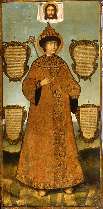 Feodor III of Russia addressing the Holy Mandylion